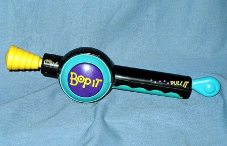 Description: Bop It (Bop-it is a trademark of Hasbro) Source: Image by Larry D. Moore (User:Nv8200p) Date: June 24, en:2005